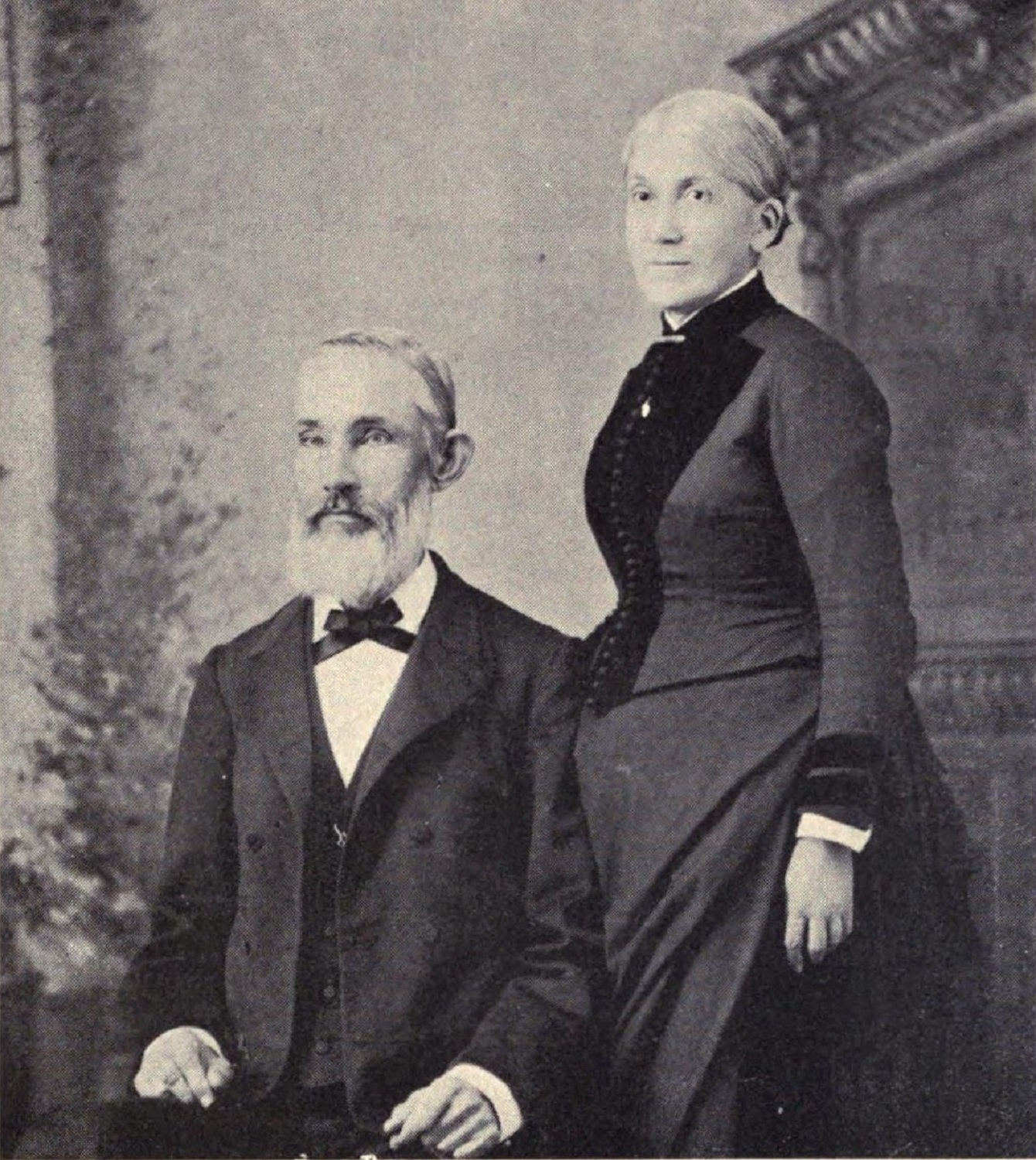 Photo of Hiram Bingham II (1831–1908) Clara Brewster Bingham (1834–1903) in 1887.